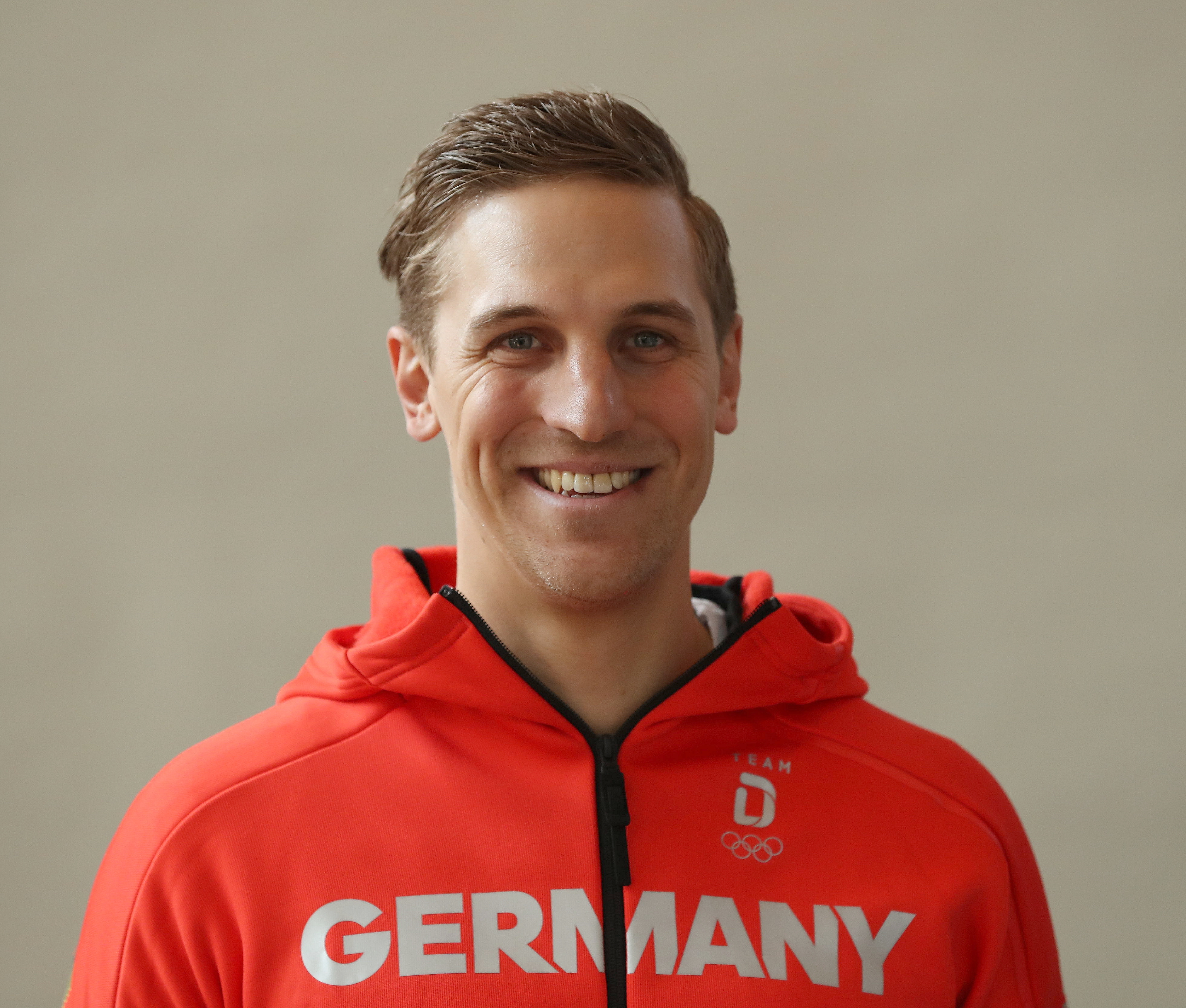 Portraits at the Clothing of the German team for Winter Olympics 2018 in Pyeonchang.